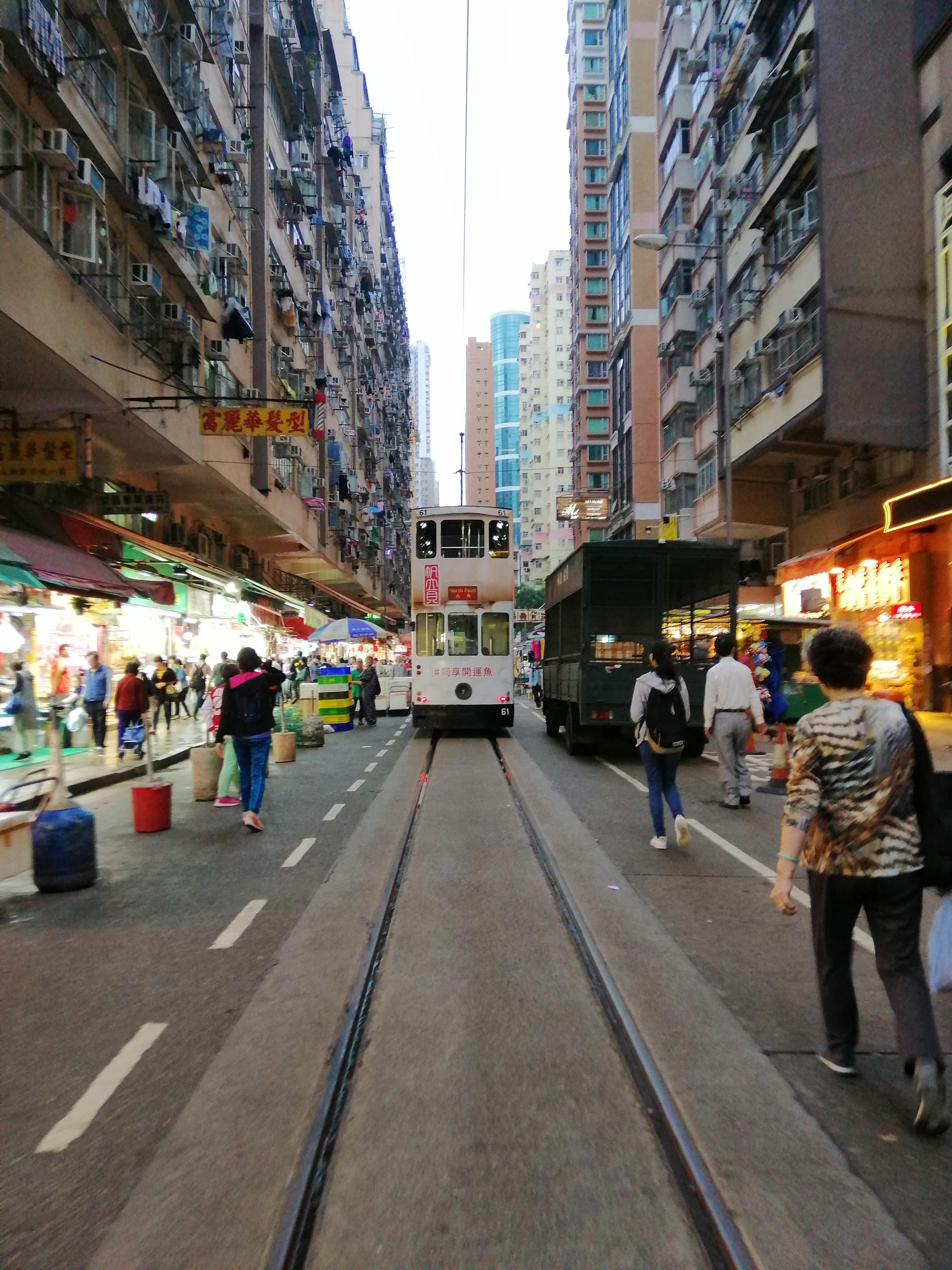 A photo indicating a tram travelling on Chun Yeung Street